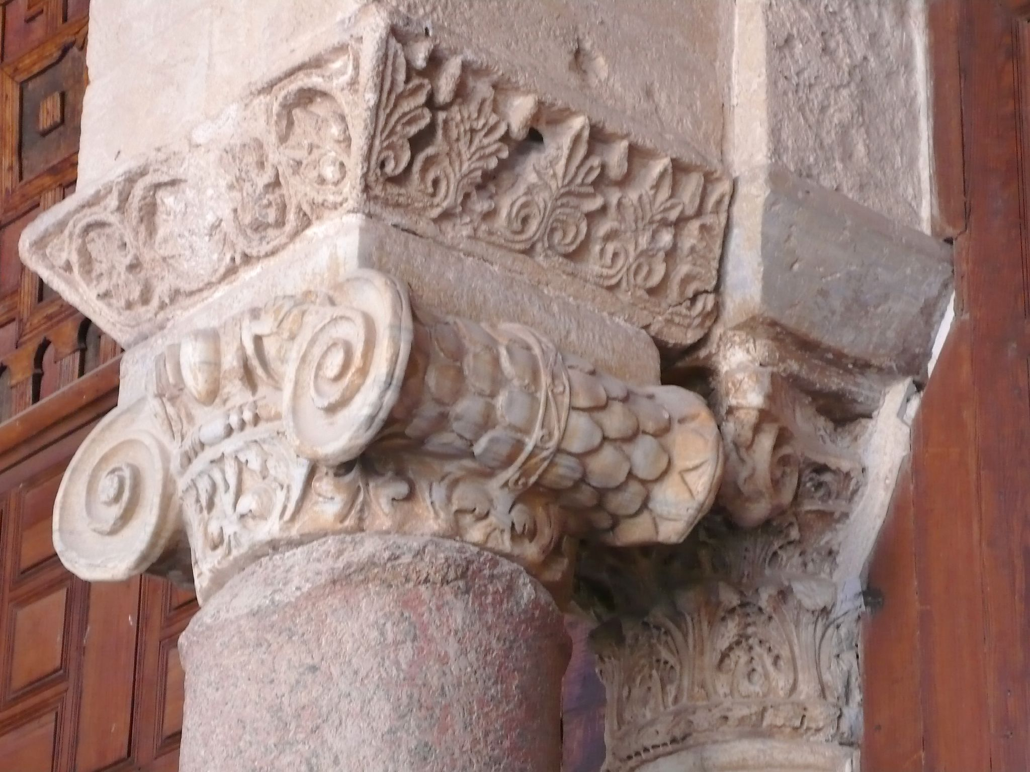 Ionic capital in the Great Mosque of Kairouan, Tunisia.